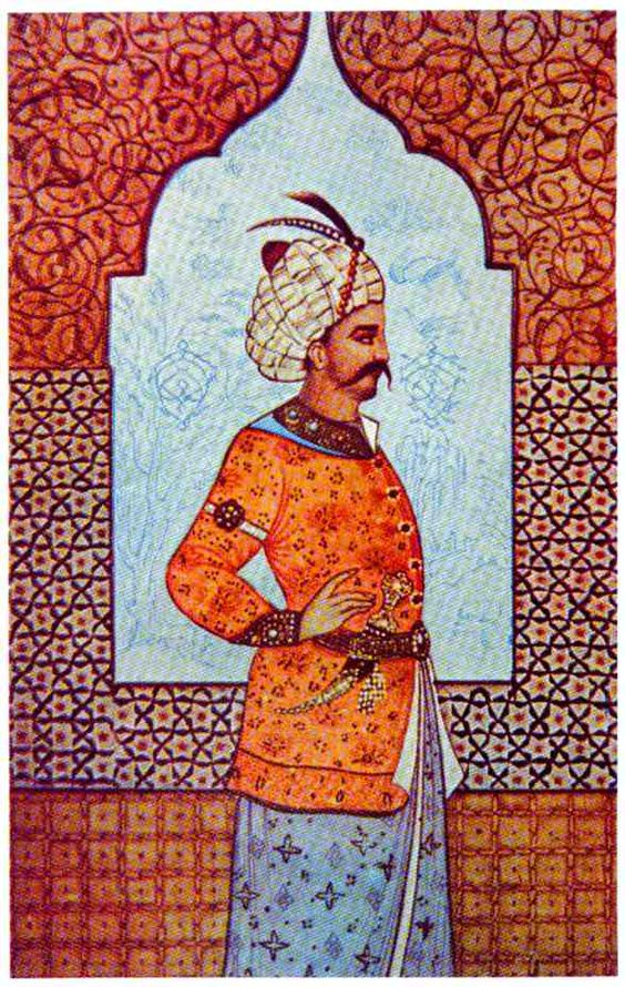 Ismaeil i